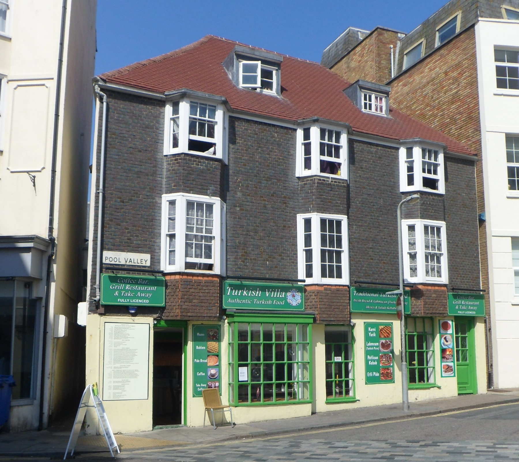 9 Pool Valley, Brighton, City of Brighton and Hove, England. A Grade II*-listed building of 1794 faced with black glazed mathematical tiles.